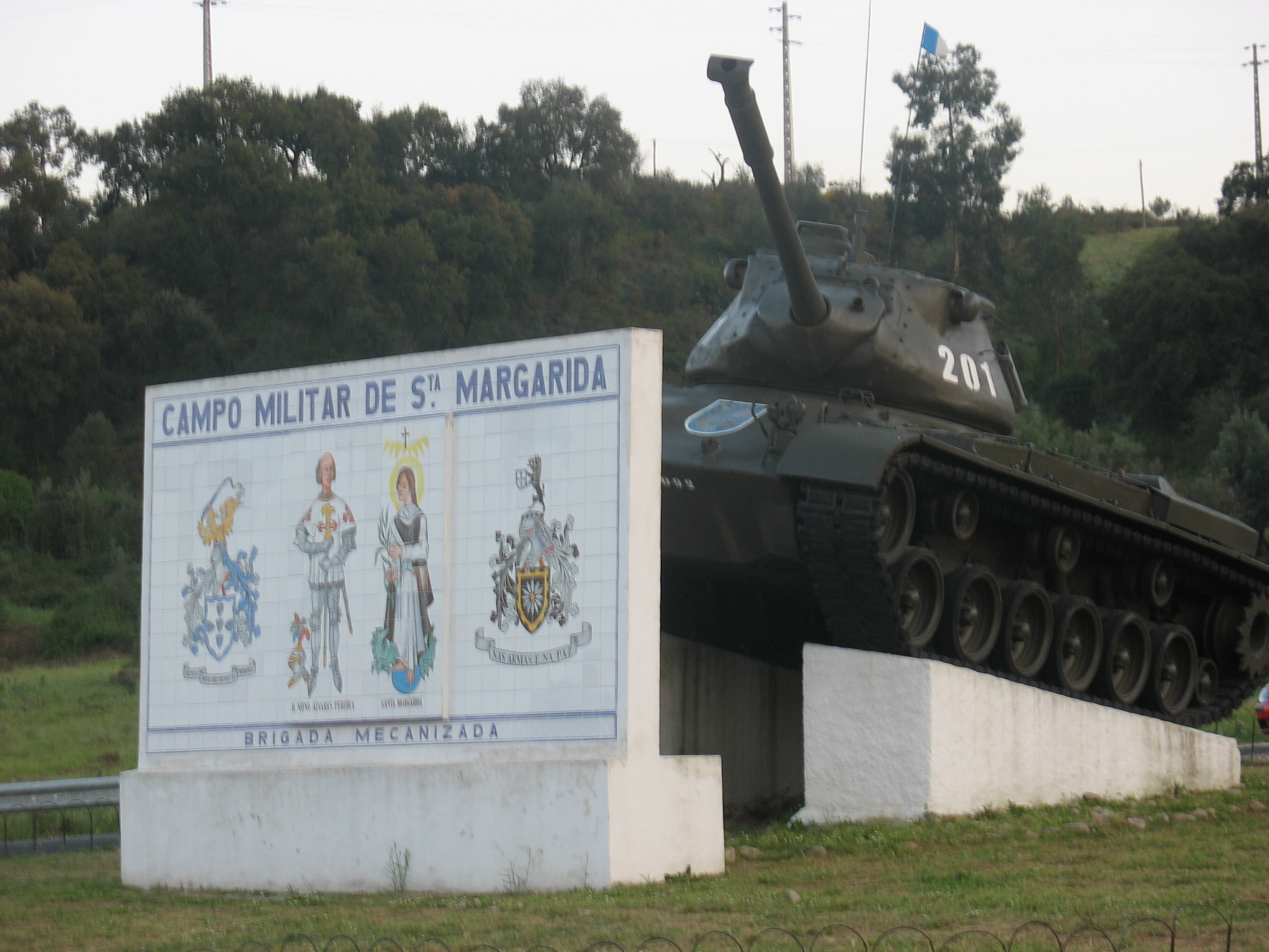 Monument at the Acess of the Portuguese Army Santa Margarida Military Camp